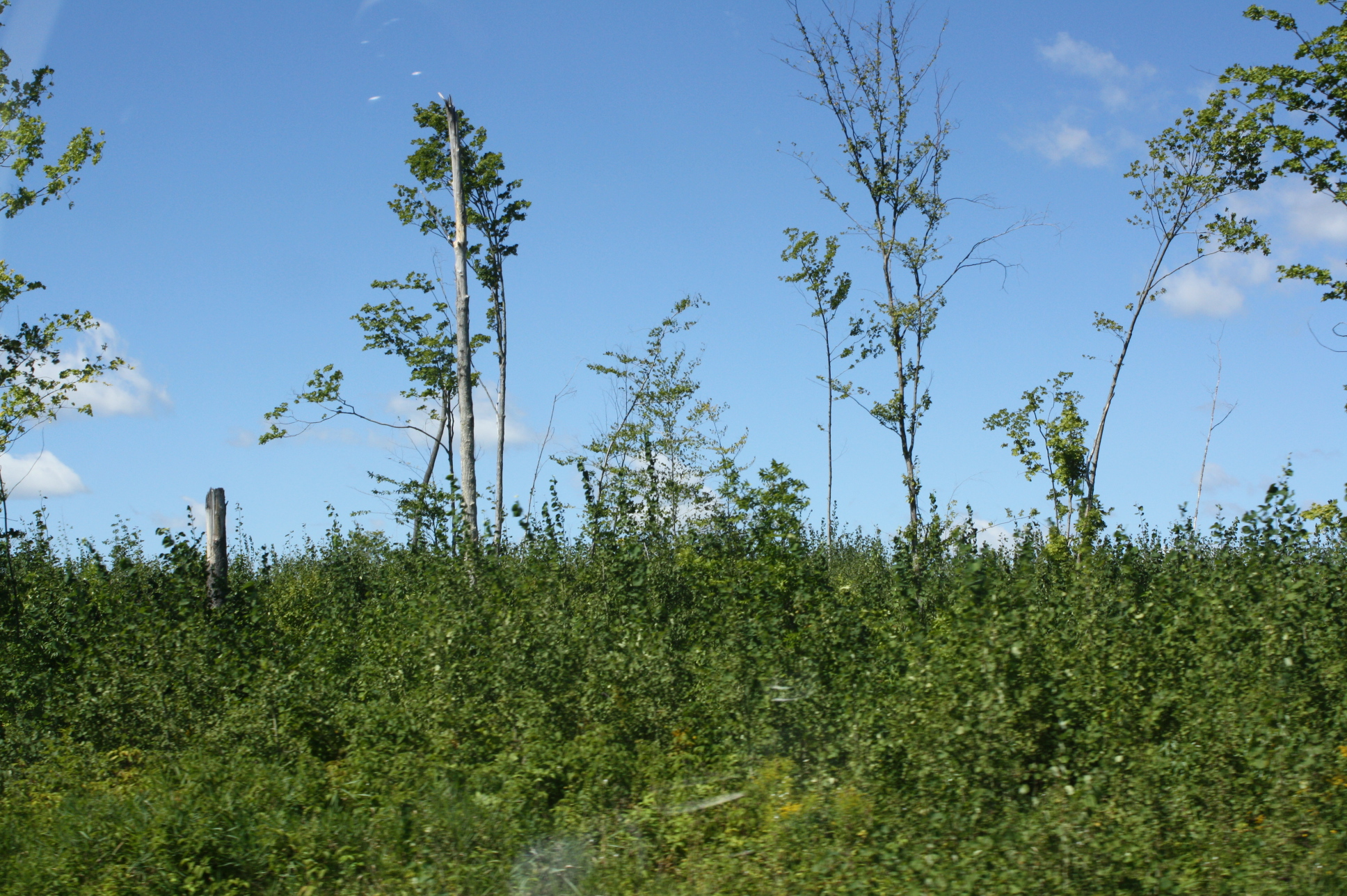 Tornado damage from a strong (EF3) and long lived tornado in June 7, 2007. The August 2010 image shows the complete damage where it intersection Wisconsin Highway 32 in Oconto County, Wisconsin. The largest trees are moderate sized (less than 50 feet/20 meters).